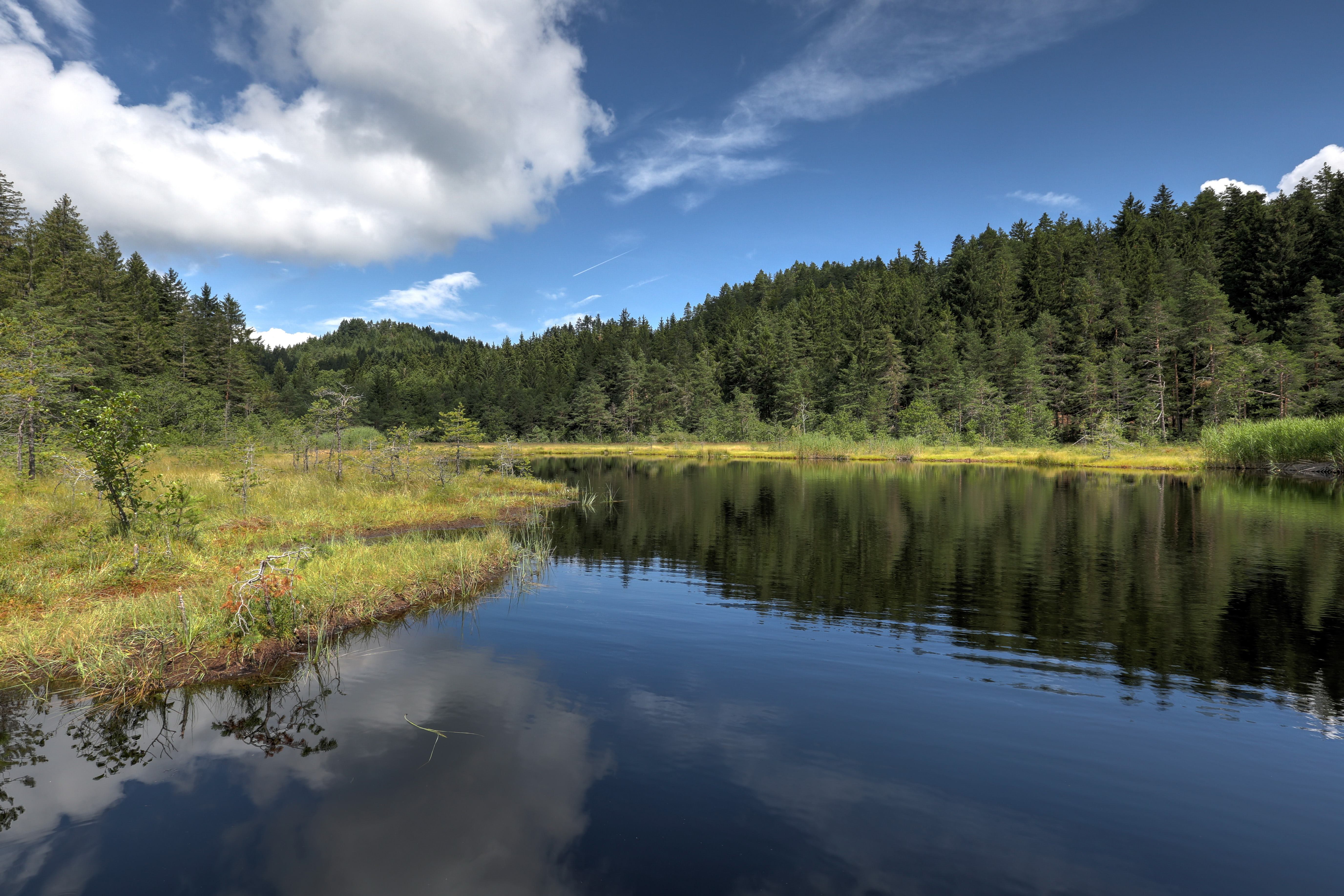 Lake Egelsee a mire lake, near Molzbichl / Spittal an der Drau / Carinthia / Austria / EU. View to the west. In the background of wooded Hochgosch (876 m above sea level).